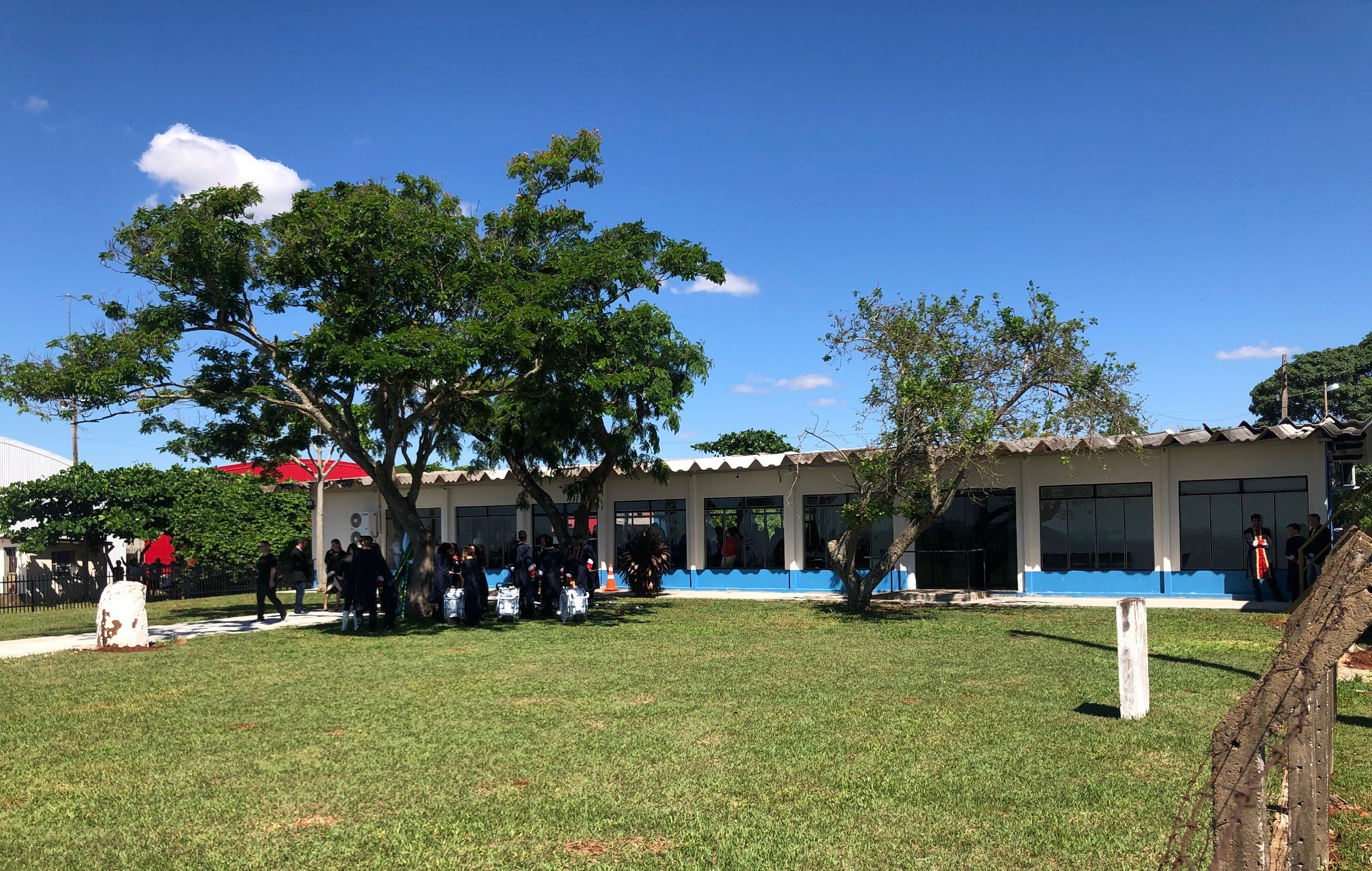 Image made on October 22, 2019: celebrations of the first flight operated by TwoFlex from Curitiba.